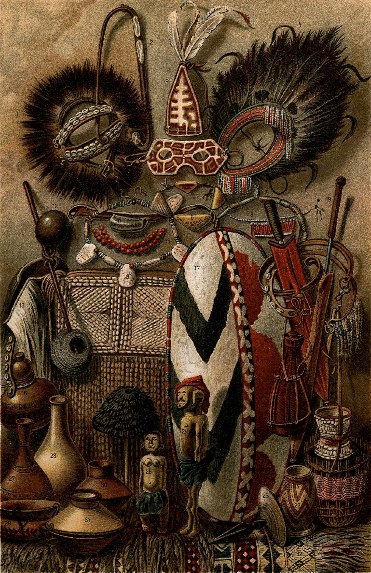 Objects from african culture